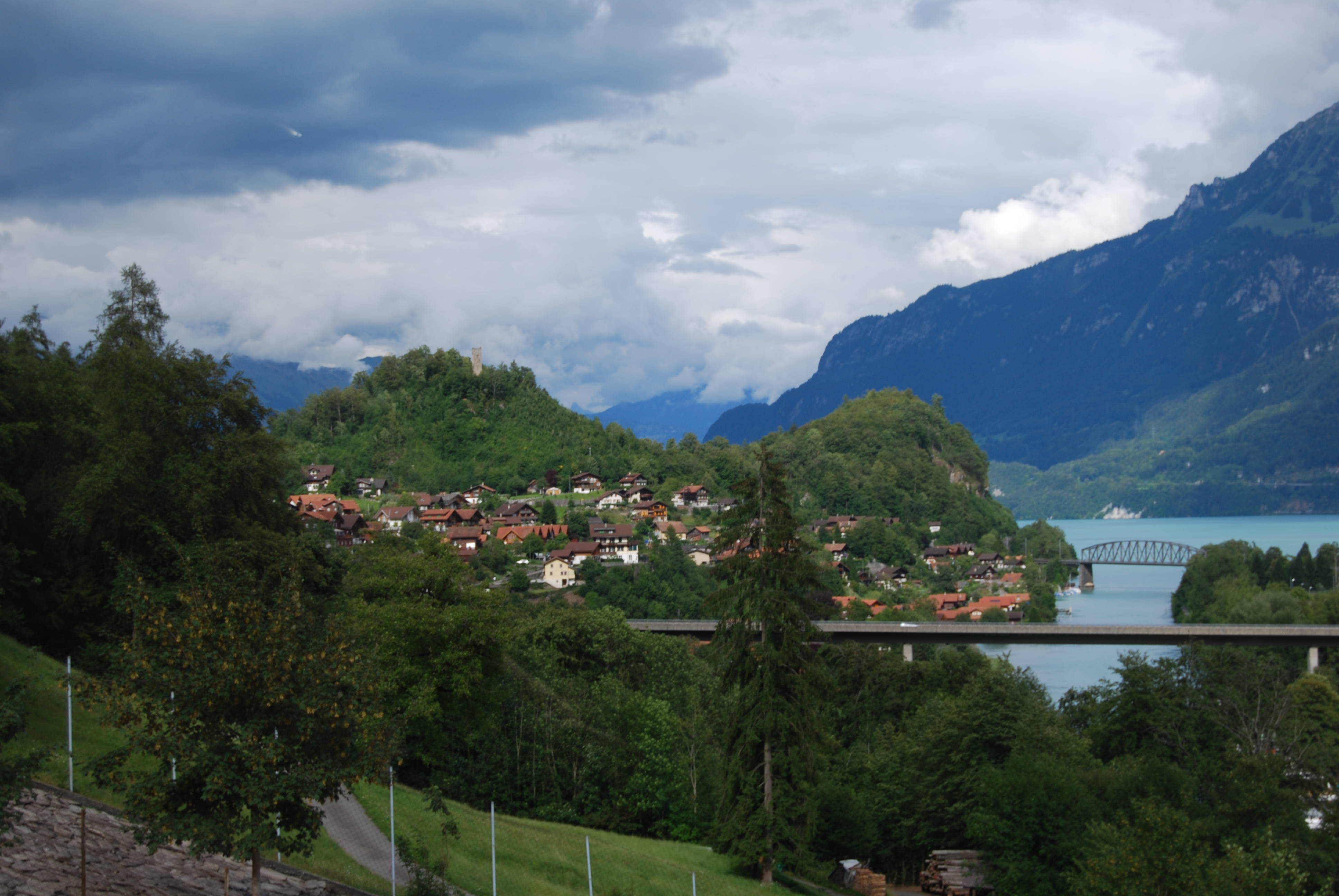 Ringgenberg bei Interlaken, canton of Bern, SwitzerlandEsperanto: Ringgenberg ĉe Interlaken, Kantono Berno, Svislando